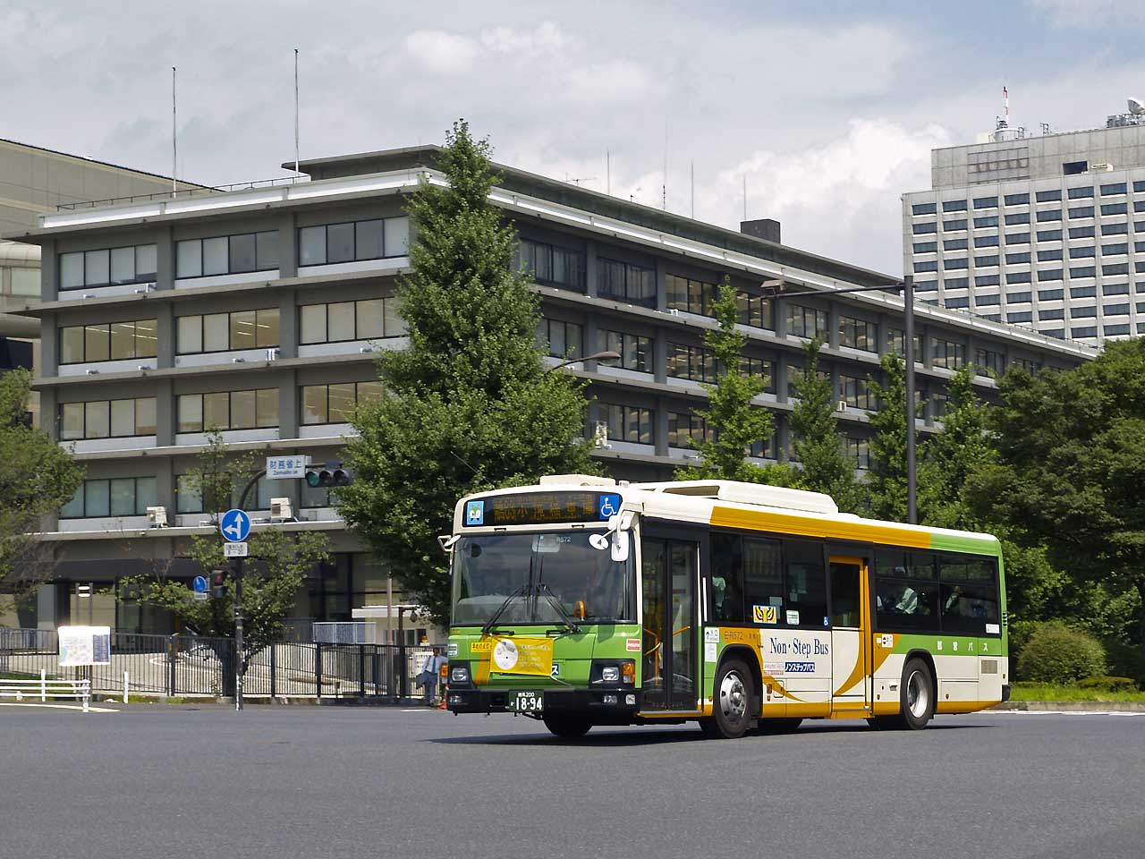 Toei Bus Hashi63 route (between Shinbashi and Otakibashi) through Kasumigaseki. Model: Hino Blue Ribbon II PKG-KV234L2 License plate: TKN200 KA1894 Place: Kasumigaseki, Chiyoda Ward, Tokyo Japan.